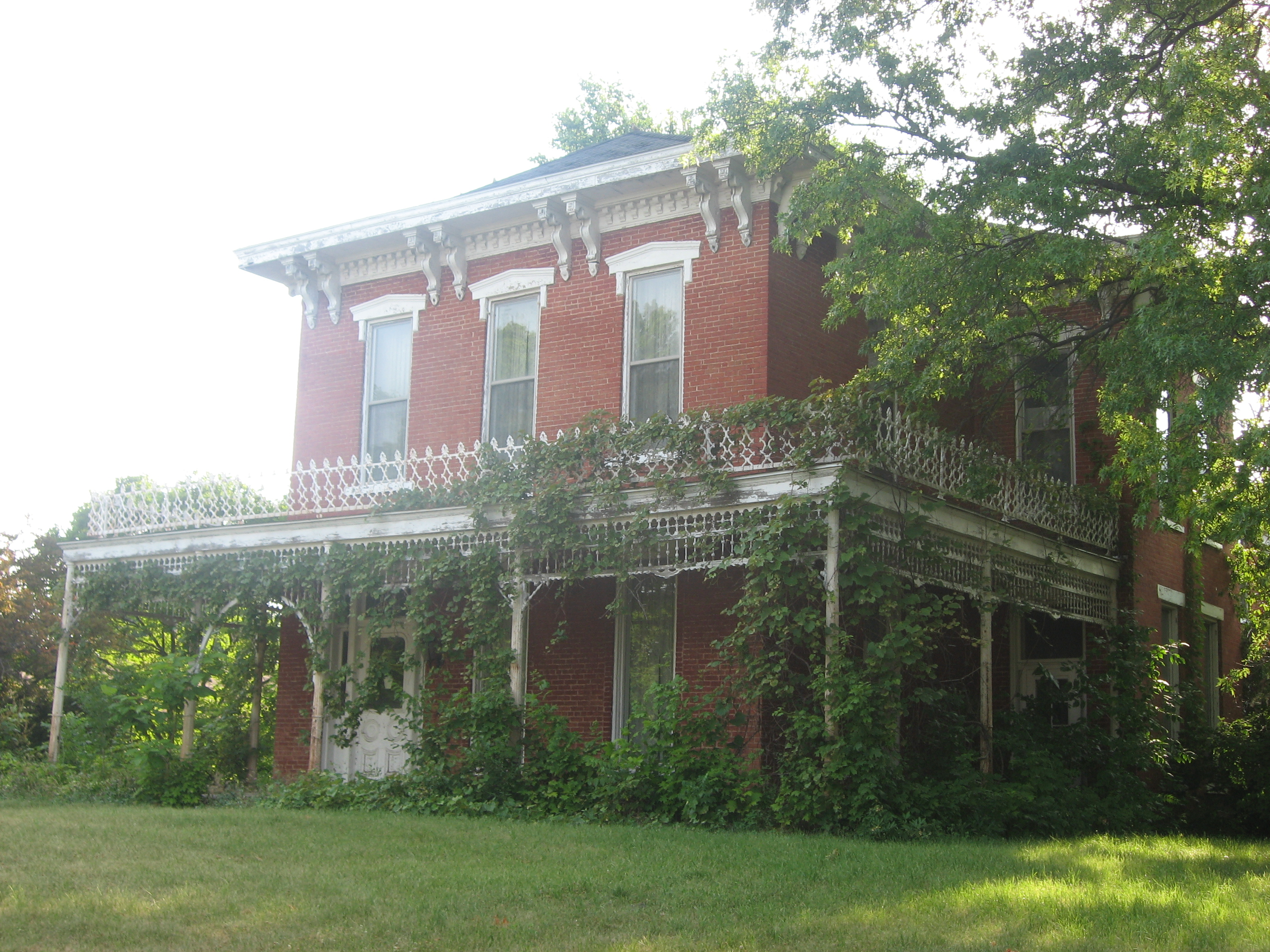 Front and southern side of the James Culbertson Reynolds House, located at 417 N. Main Street in Monticello, Indiana, United States. Built in 1873, it is listed on the National Register of Historic Places.